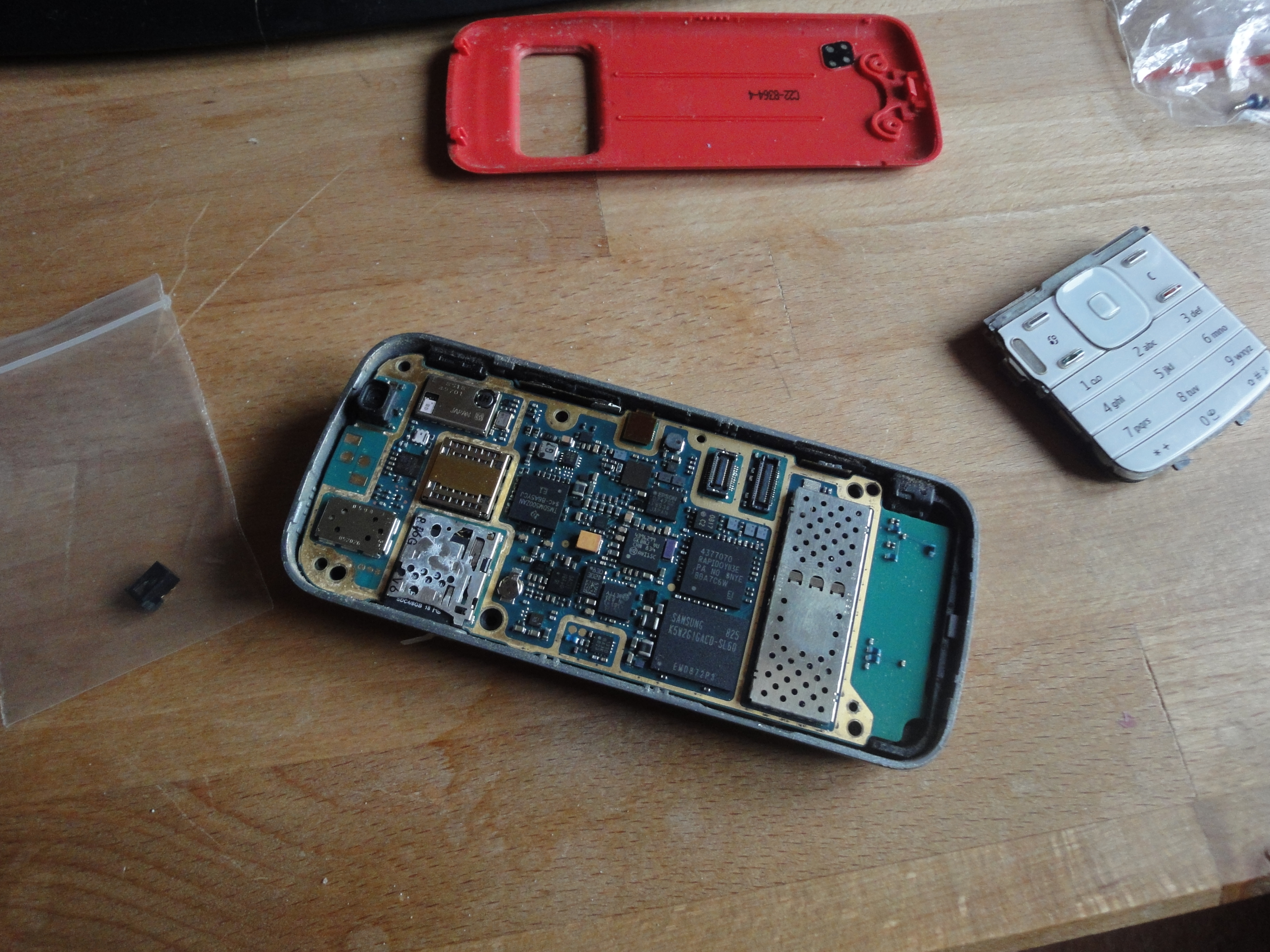 The internal workings of a Nokia N79